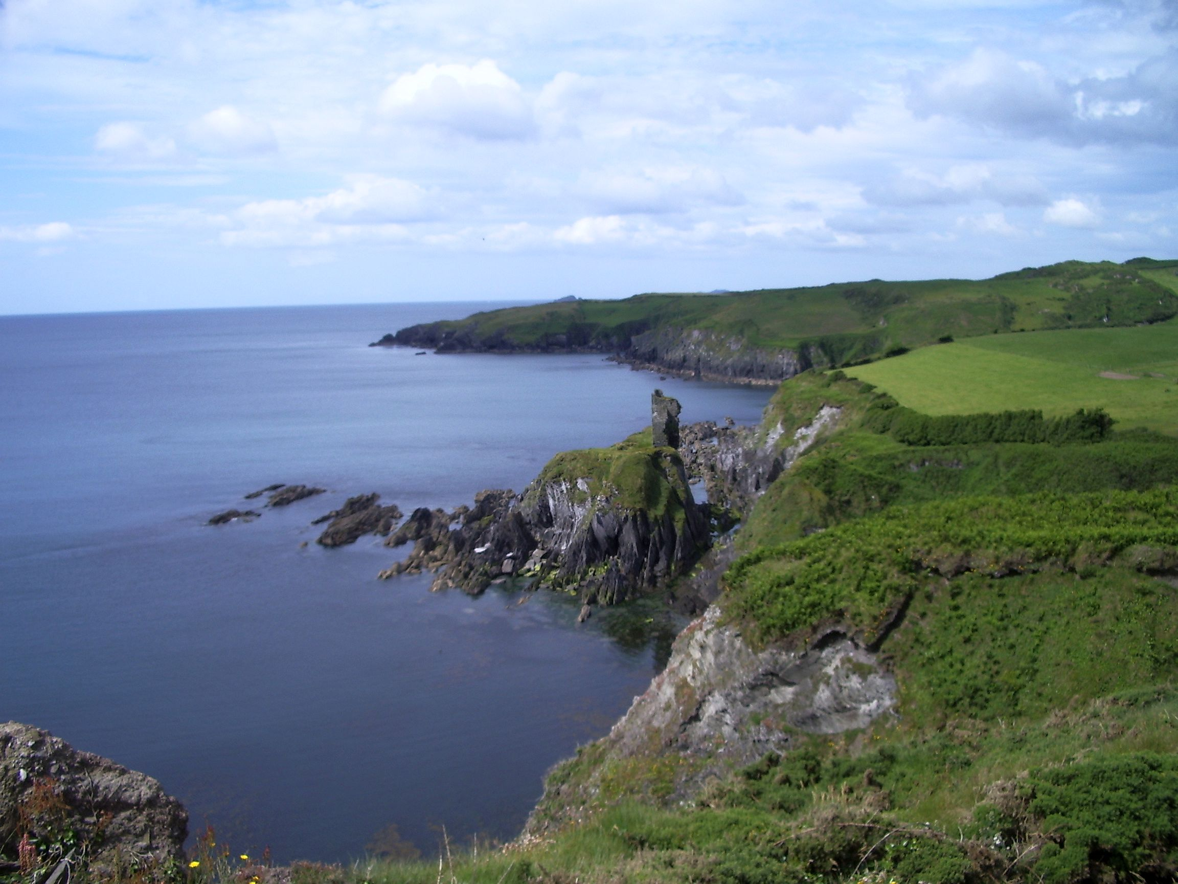 Downeen Castle, Rosscarbery